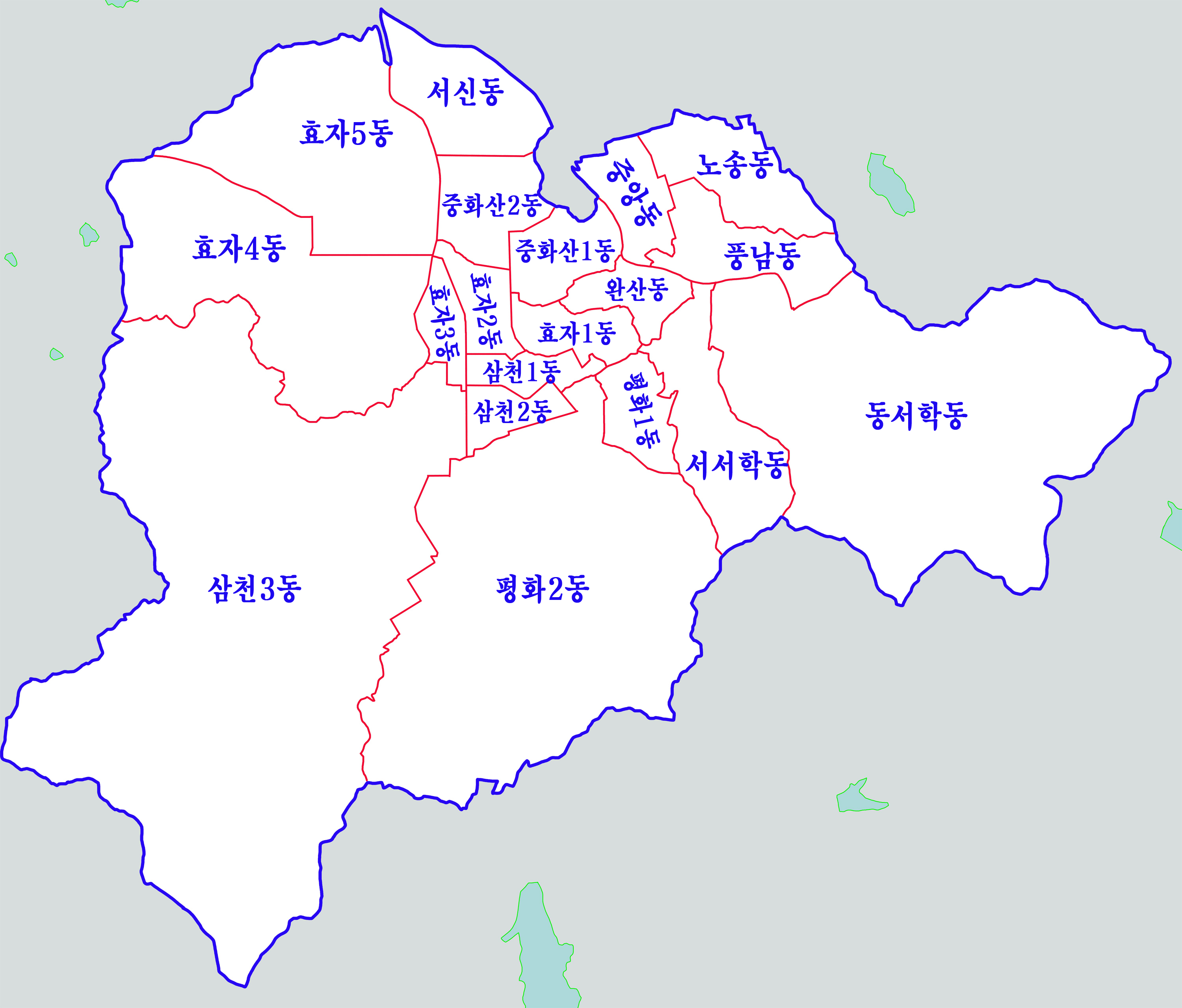 Detail map of Wansan-gu, Jeonju